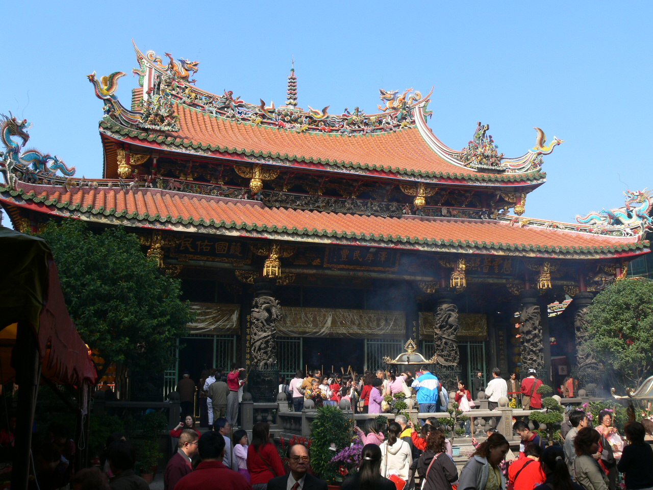 Lungshan temple Taipei Taiwan